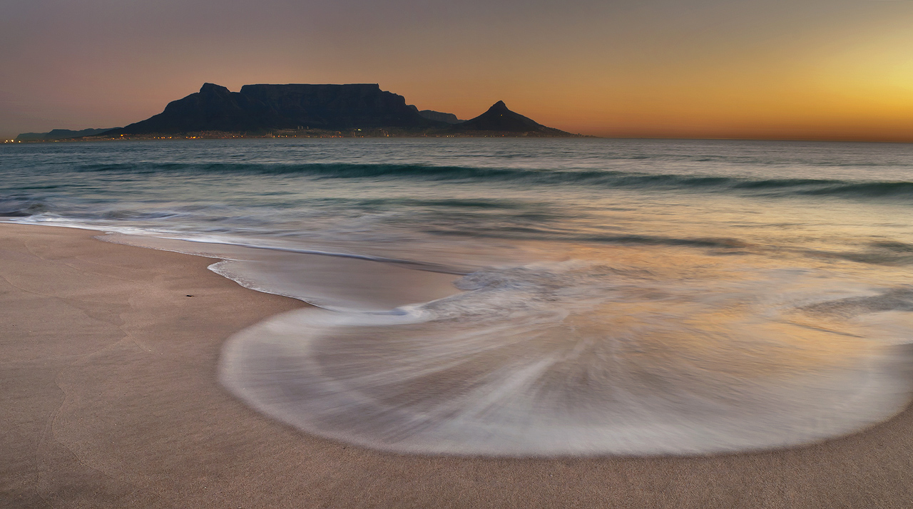 Table Mountain from Bloubergstrand. Table Mountain (Afrikaans: Tafelberg) is a flat-topped mountain forming a prominent landmark overlooking the city of Cape Town in South Africa, and is featured in the Flag of Cape Town and other local government insignia. It is a significant tourist attraction, with many visitors using the cableway or hiking to the top. The mountain forms part of the Table Mountain National Park. The view from the top of Table Mountain has been described as one of the most epic views in Africa.